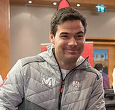 Vincent Kriechmayr